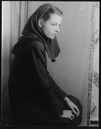 Actress Betty Field (1947). Portrait by Carl Van Vechten, photographer. 1947 Dec. 20. Portrait of Betty Field